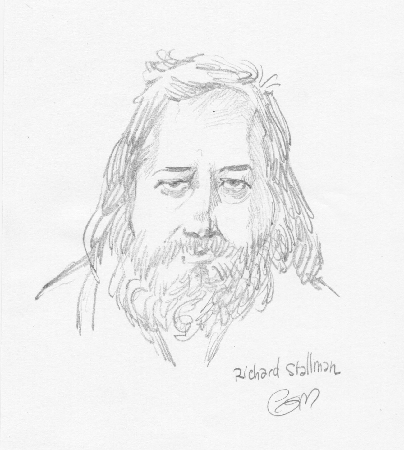 Drawing of Richard Stallman